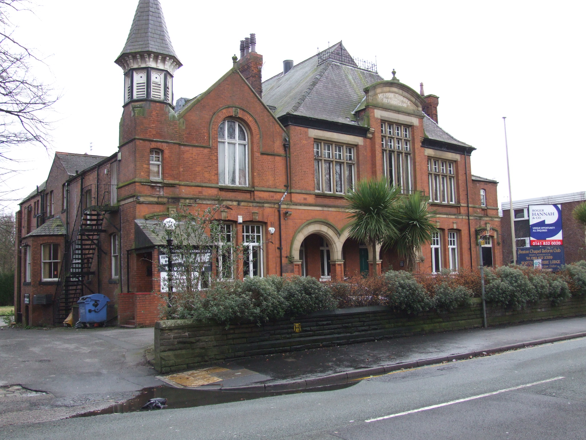 Heaton Moor is situated in Stockport, in the direction of Manchester. It is a railway suburb, served by Heaton Chapel railway station. The railway runs parallel to the A6, and the moor is on the other side of the railway... . Heaton Chapel Reform Club, Heaton Moor